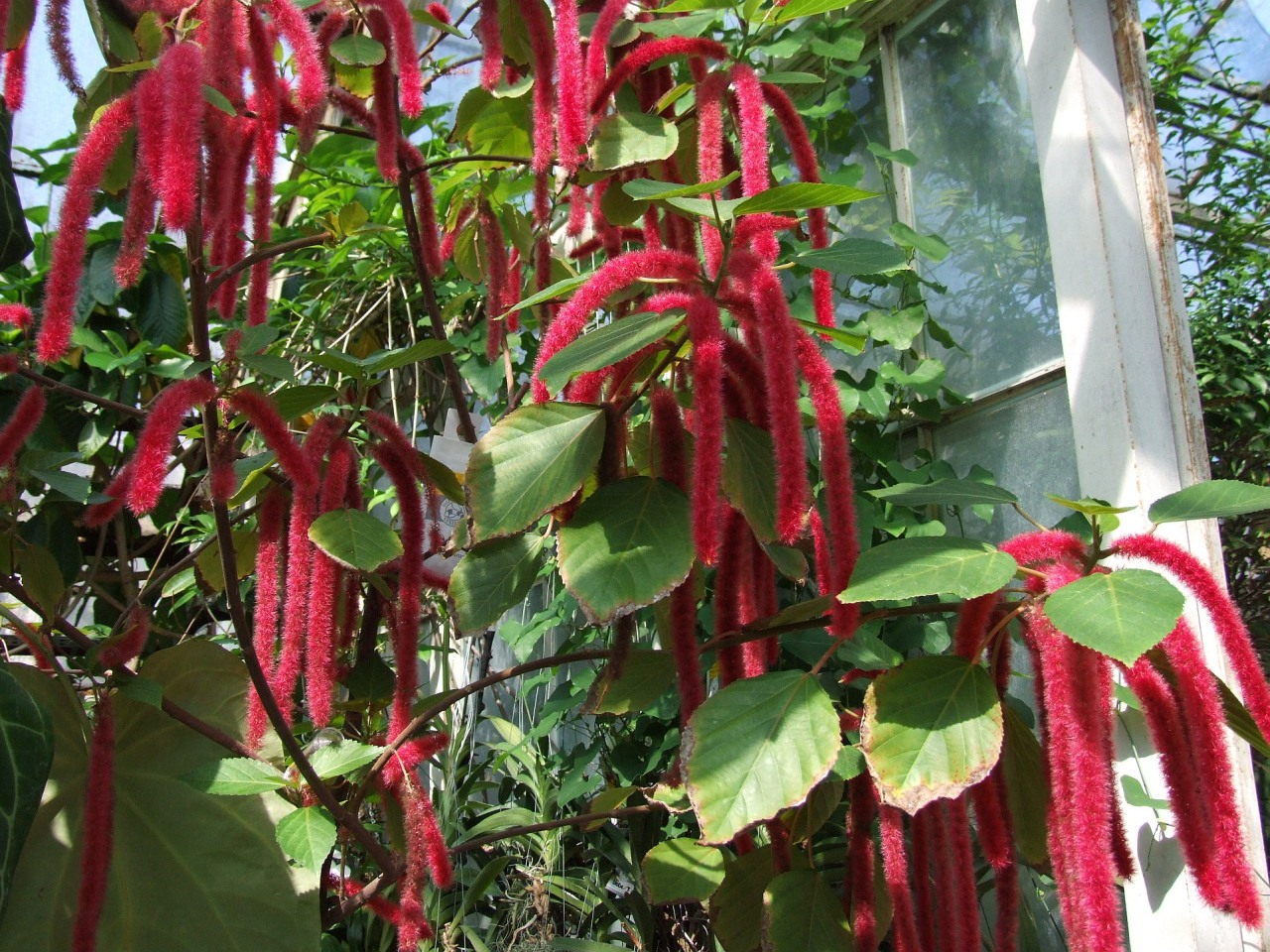 Acalypha hispida